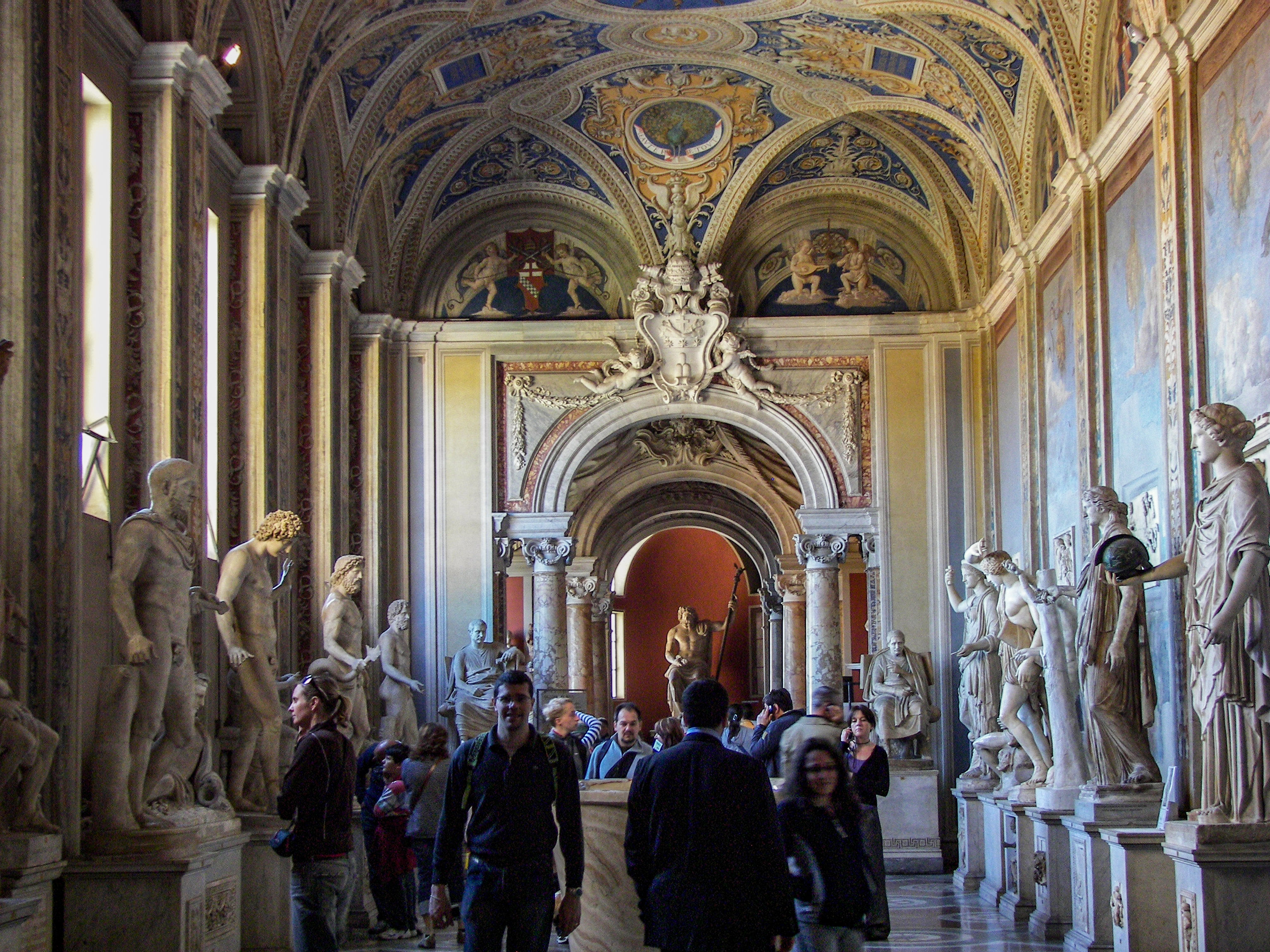 Museo Pio-Clementino in the Vatican Museums.